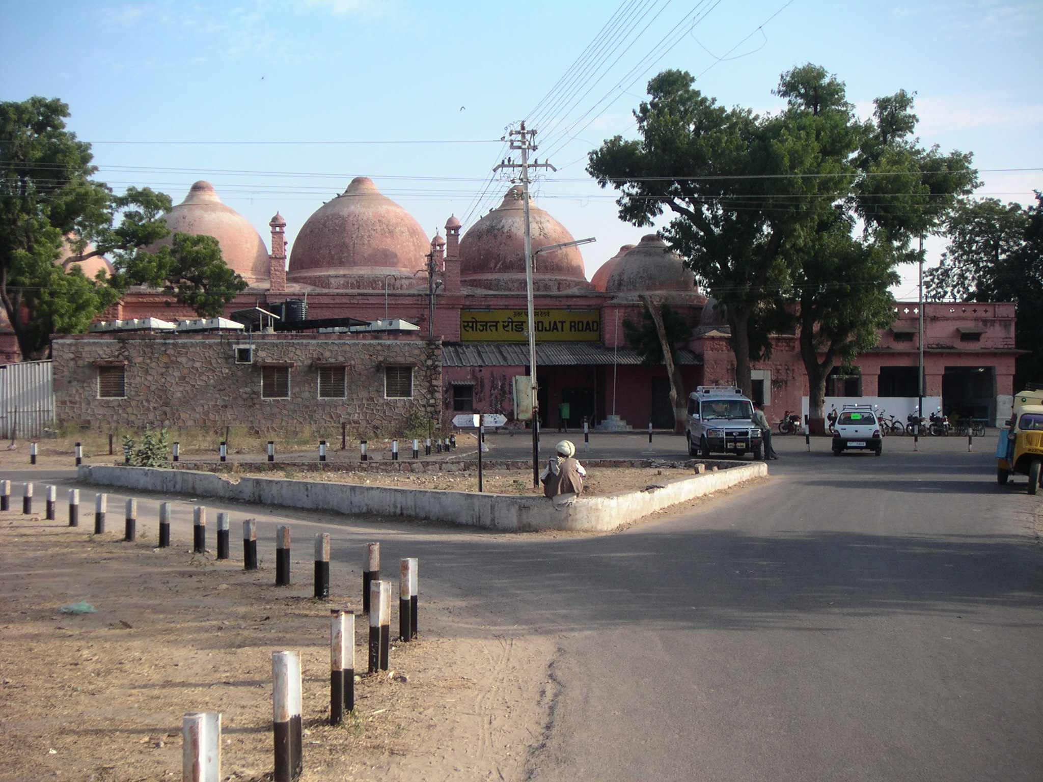 View of Sojat Road train station from the town side.